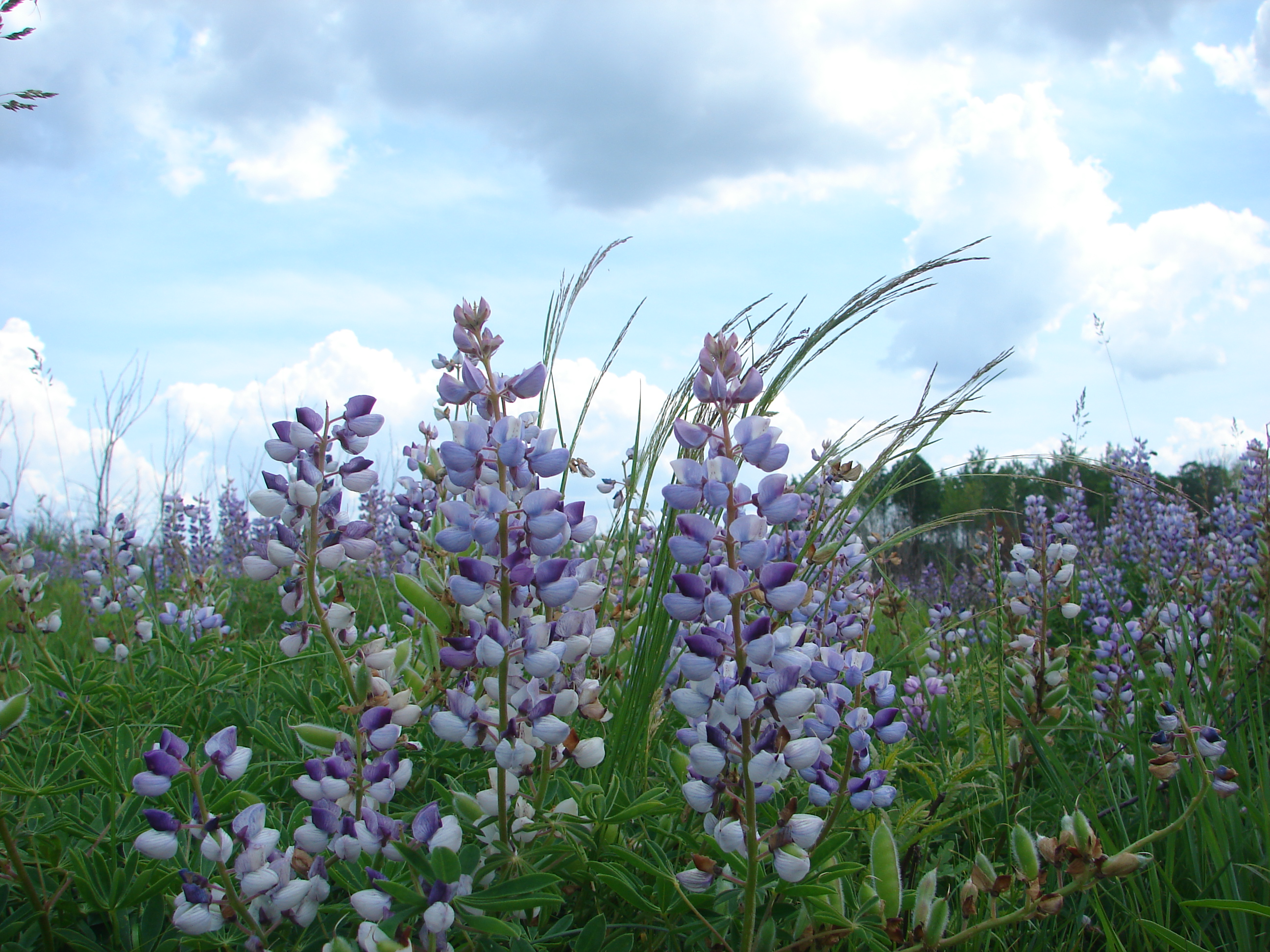 Native lupine grows at Necedah National Wildlife Refuge in Wisconsin. Credit: USFWS